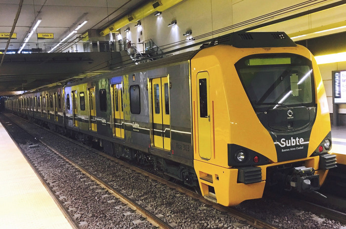 A 300 series train at a station on Line H of the Buenos Aires Underground.